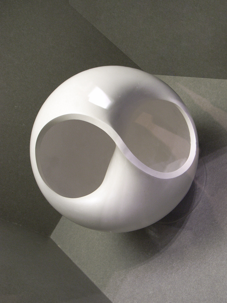 Surface study from Tomás Maldonado's Workshop.